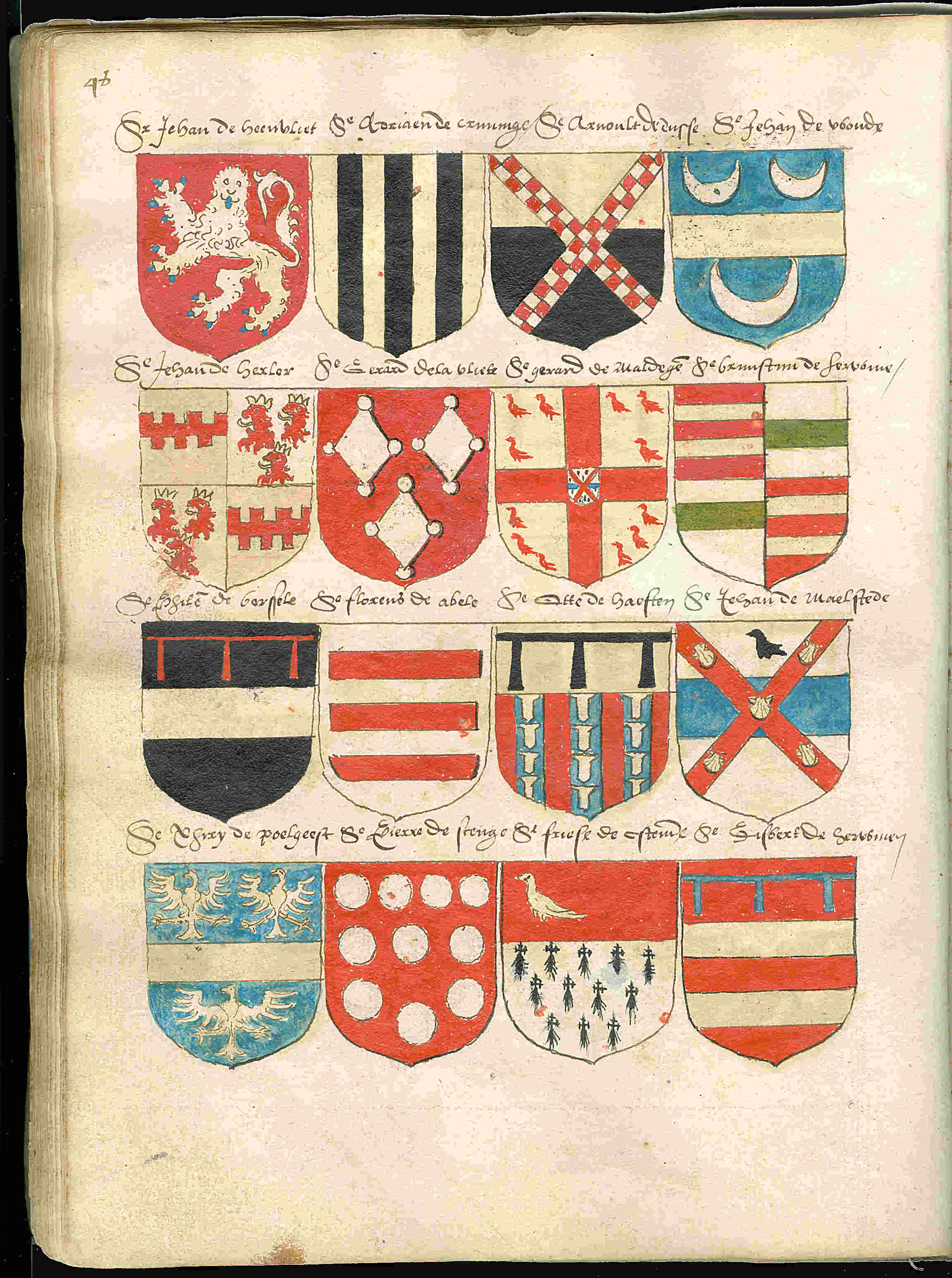 Page 46 from a copy of the Beyeren armorial / Wapenboek Beyeren from ca. 1600. The original Beyeren armorial from 1405 can be viewed at the website of the KB